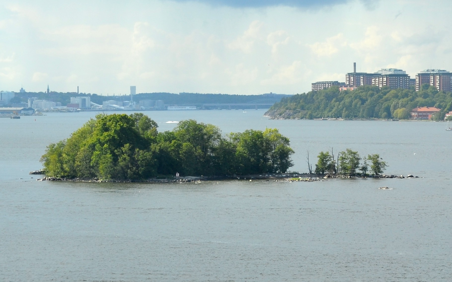 Libertas, the second smallest of the feather isles in Stockholm harbour.